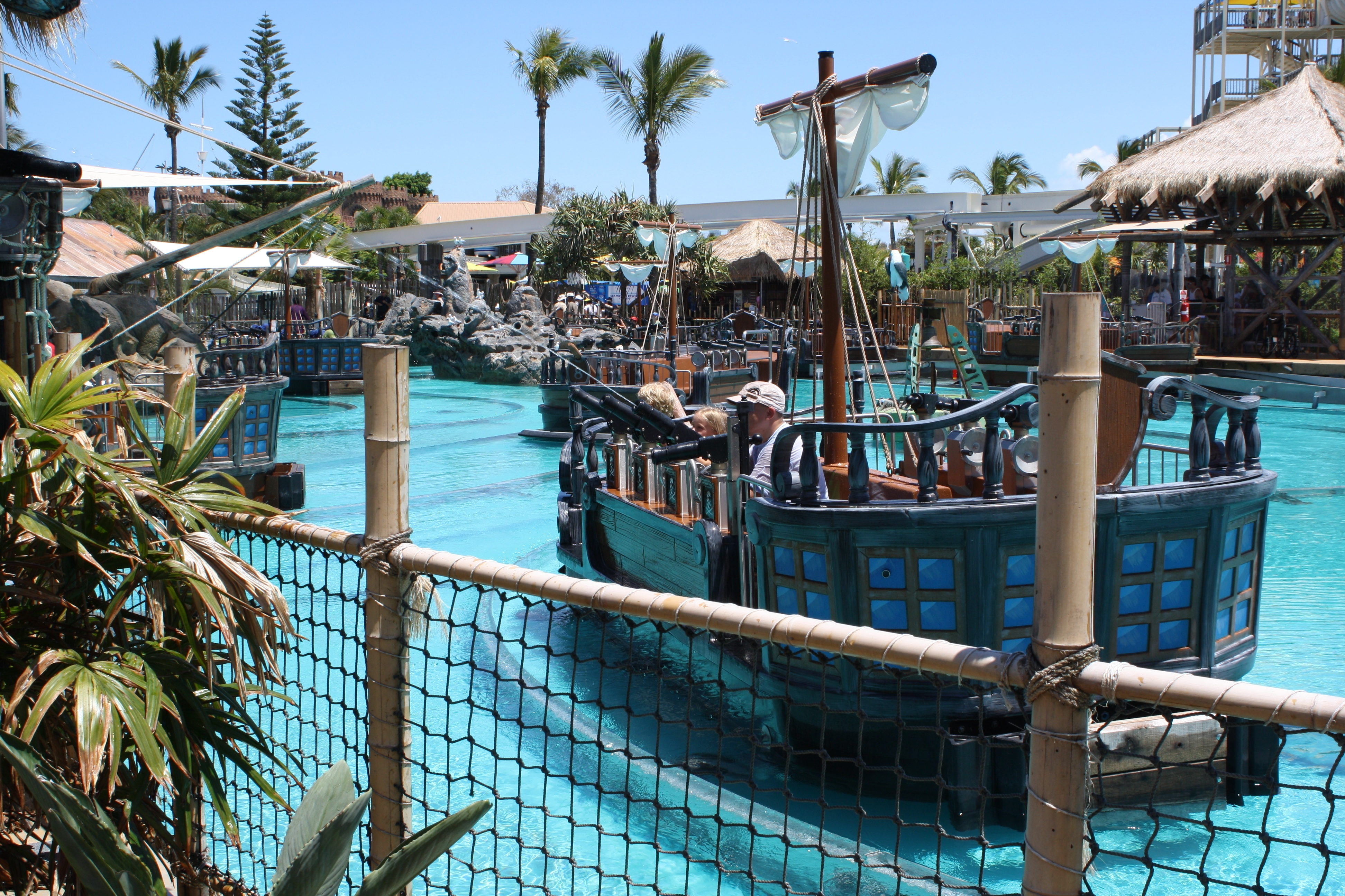 Yes, very wet and tons of fun!